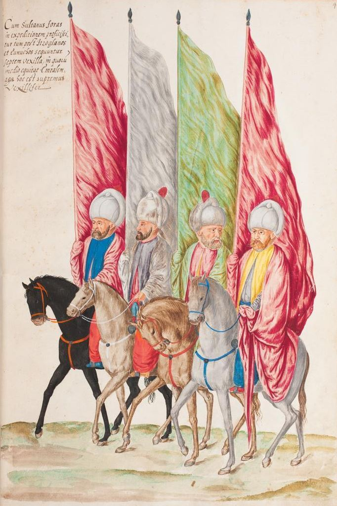 Illustration from the Turkish Costume Book by Lambert de Vos (Bremen, Staats- und Universitätsbibliothek, ms. Or. 9)